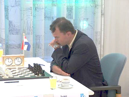 Dutch chess player Ivan Sokolov (picture taken during the 2004 Essent Tournament in Hoogeveen, the Netherlands). Picture taken by myself, uploaded to the Dutch Wikipedia on October 24, 2004. On request, uploaded tot Wikimedia Commons on June 5, 2006.